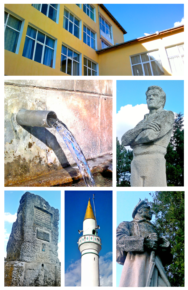 Collage of the landmarks of Ezerche